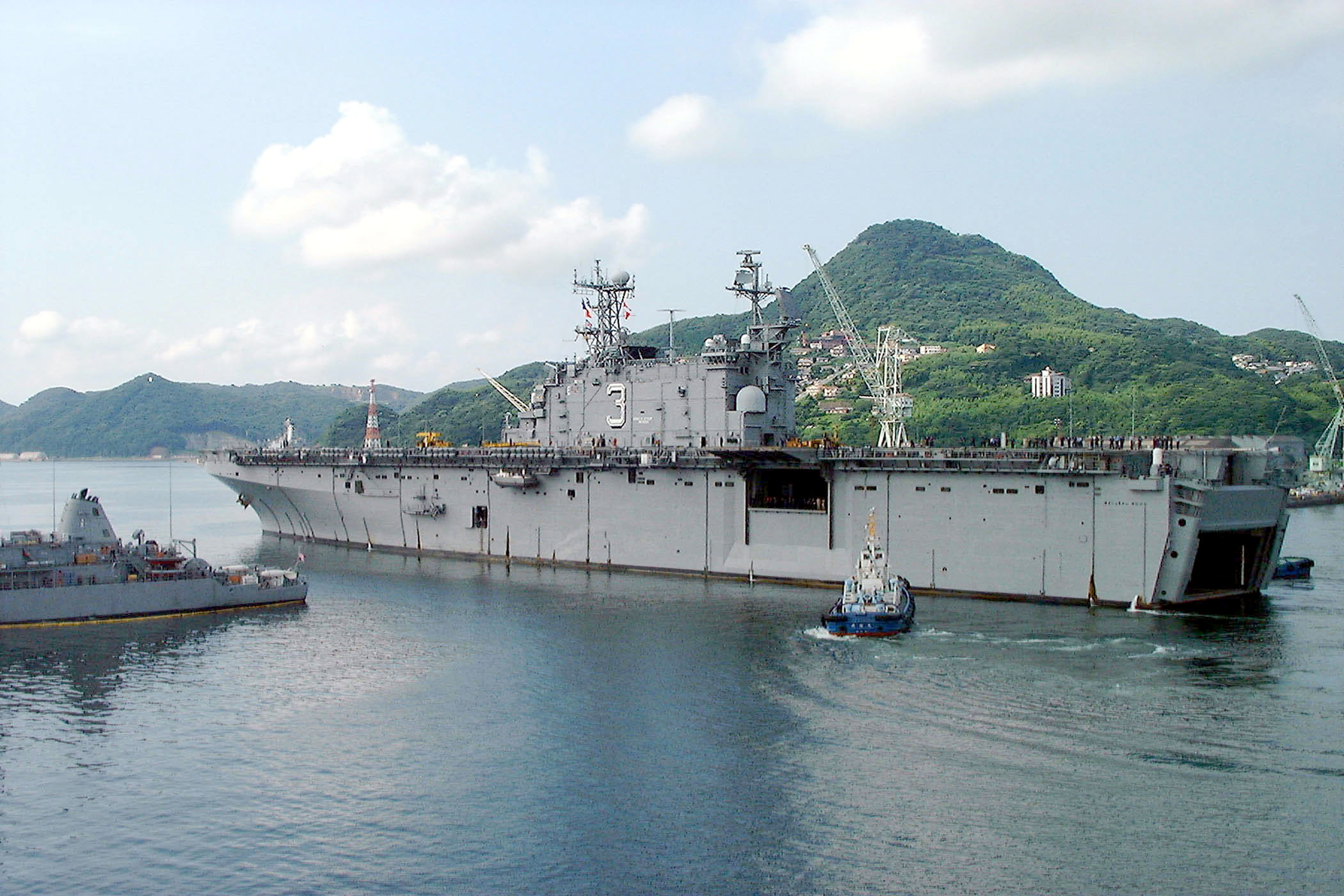 Sasebo, Japan (Aug.11, 2000) -- The amphibious assault ship USS Belleau Wood (LHA 3) departs India Basin in Sasebo, Japan, . U.S. Navy photo by Lieutenant Lisa Brackenbury. (RELEASED)